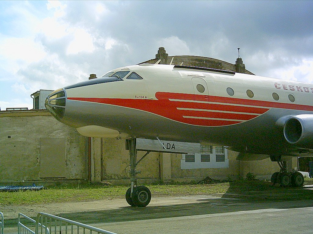 Tupolev Tu-104A, Kbely museum, Prague, Czech Republic